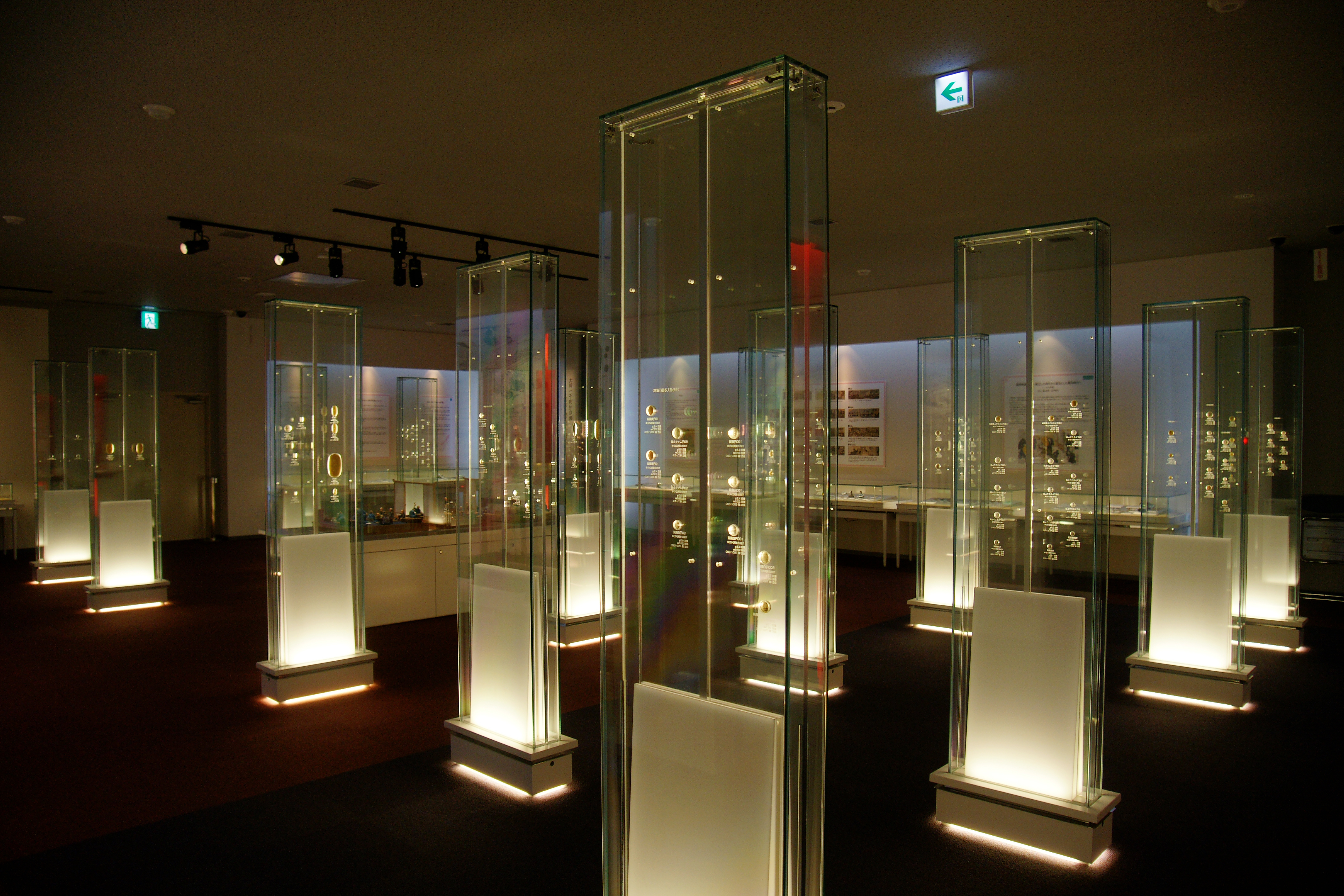 Mint Museum in Osaka, Osaka prefecture, Japan.